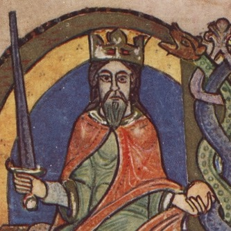 David I of Scotland, detail of an illuminated initial on the Kelso Abbey charter of 1159